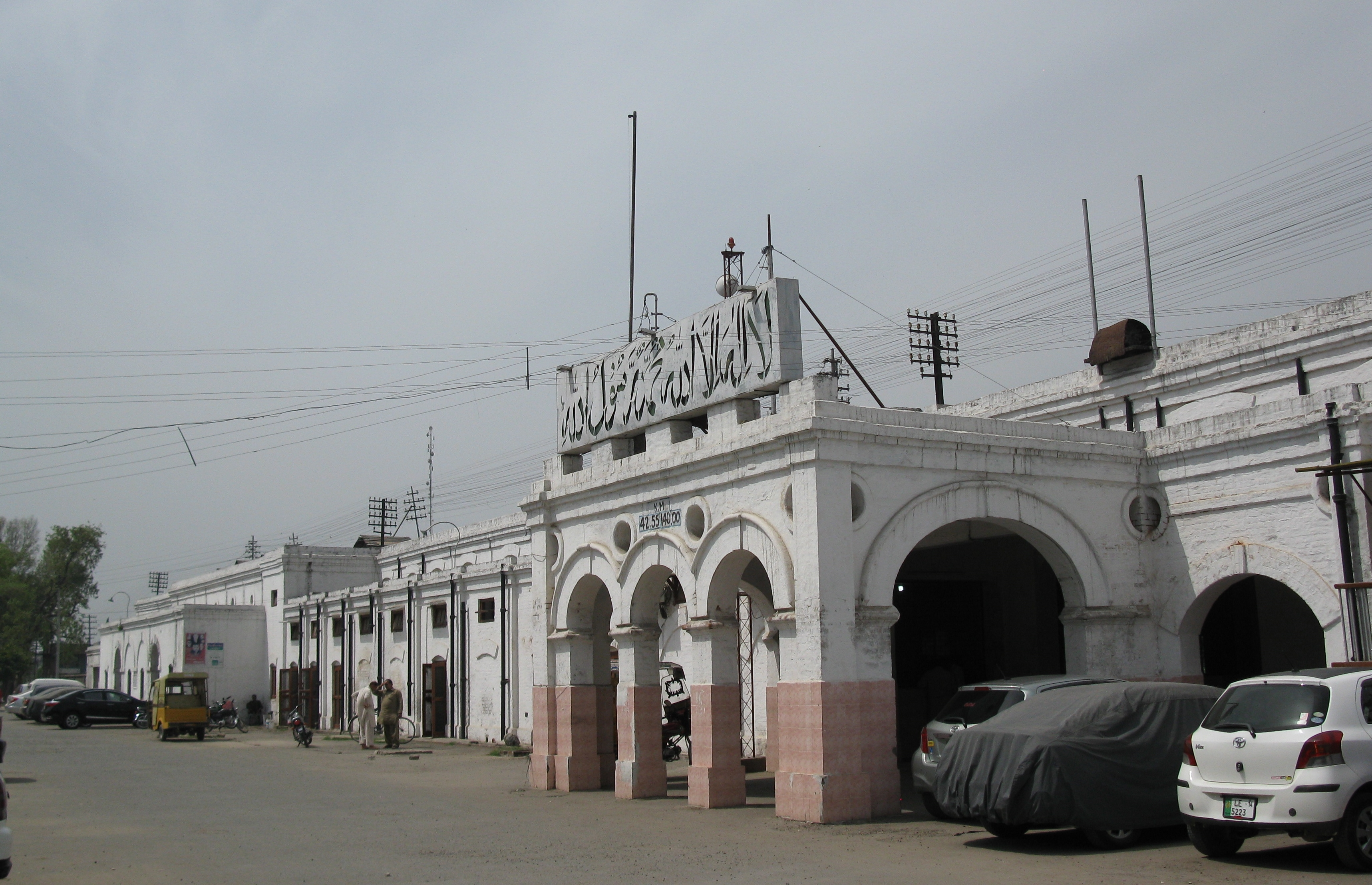 Sialkot, Railway Station